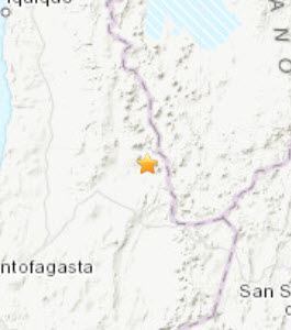 M 6.3 - Antofagasta, Chile 2010-07-12 00:11:21 (UTC)